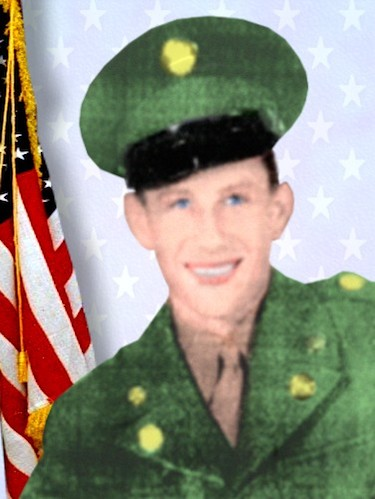 Luther H Story